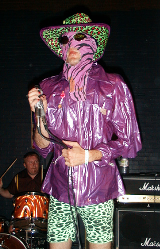 Norb Rozek ("Rev. Nørb"), front man of Green Bay, Wisconsin punk band Boris the Sprinkler